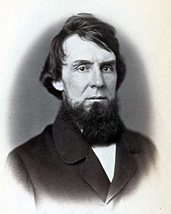 John Christian Kunkel, US Representative from Pennsylvania